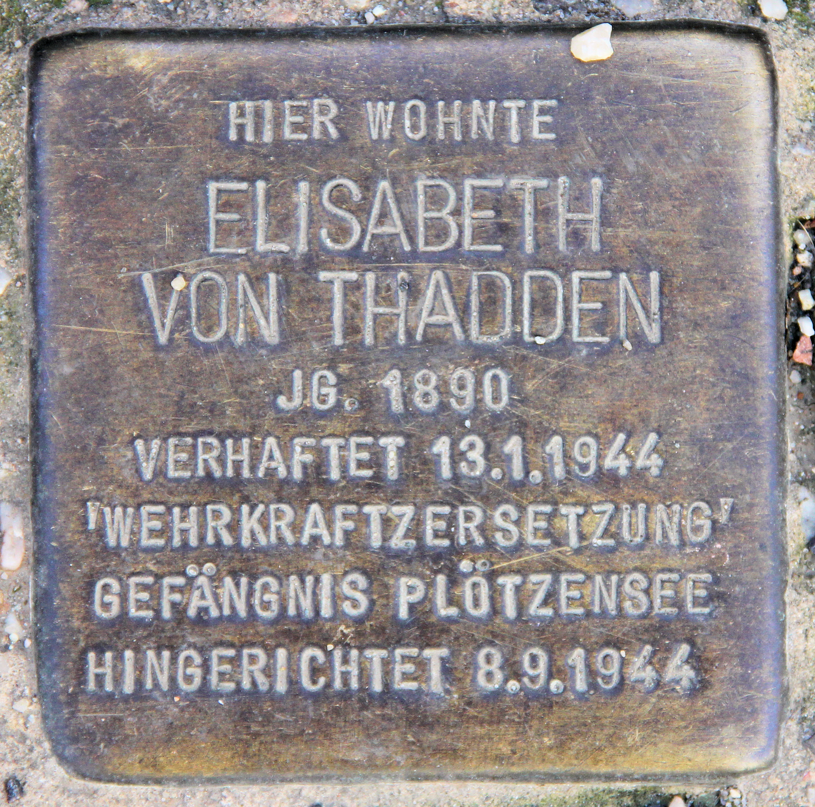 "Stolperstein" (stumbling block), Elisabeth von Thadden, Carmerstraße 12, Berlin-Charlottenburg, Germany Koordinate:52°30′25″N 13°19′27″E / 52.50694°N 13.32417°E